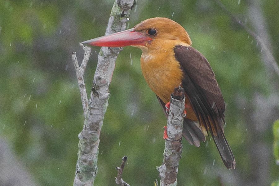 The specie Brown-winged Kingfisher had been photographed from Sundarbans, West Bengal, India on 01.01.2015.